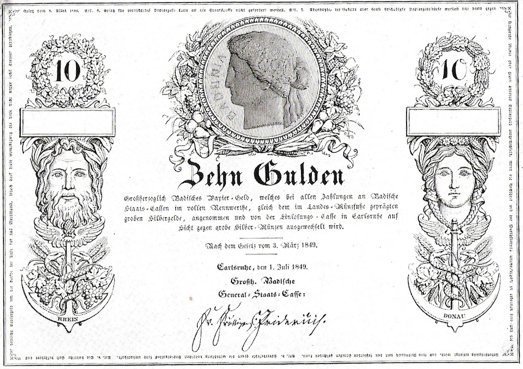 Banknote 10 fl, issued by Großherzogtum Baden in the year 1849